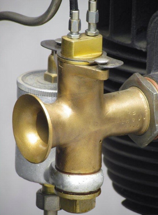 1928 Binks carburettor